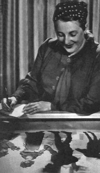 Photo of the silhouette artist Lotte Reiniger working in Rome in 1939